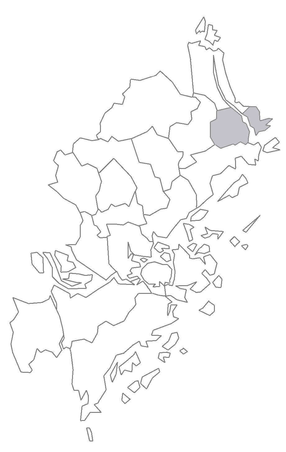 Map describing the location of Bro and Vätö Ship District in Stockholm County, Sweden.